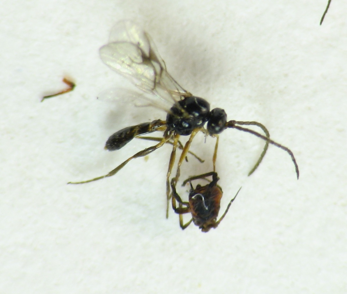 Aphidiinae, possibly Lysiphlebus ( Size: 2 mm. Pennypack Ecological Restoration Trust, Montgomery County, Pennsylvania, USA August 28, 2013 Size: 2 mm On common milkweed, among oleander aphids.